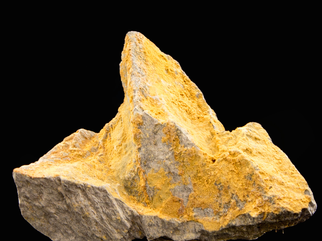 Natrojarosite from Asland Quarry, Montcada i Reixac, Barcelona, Catalonia